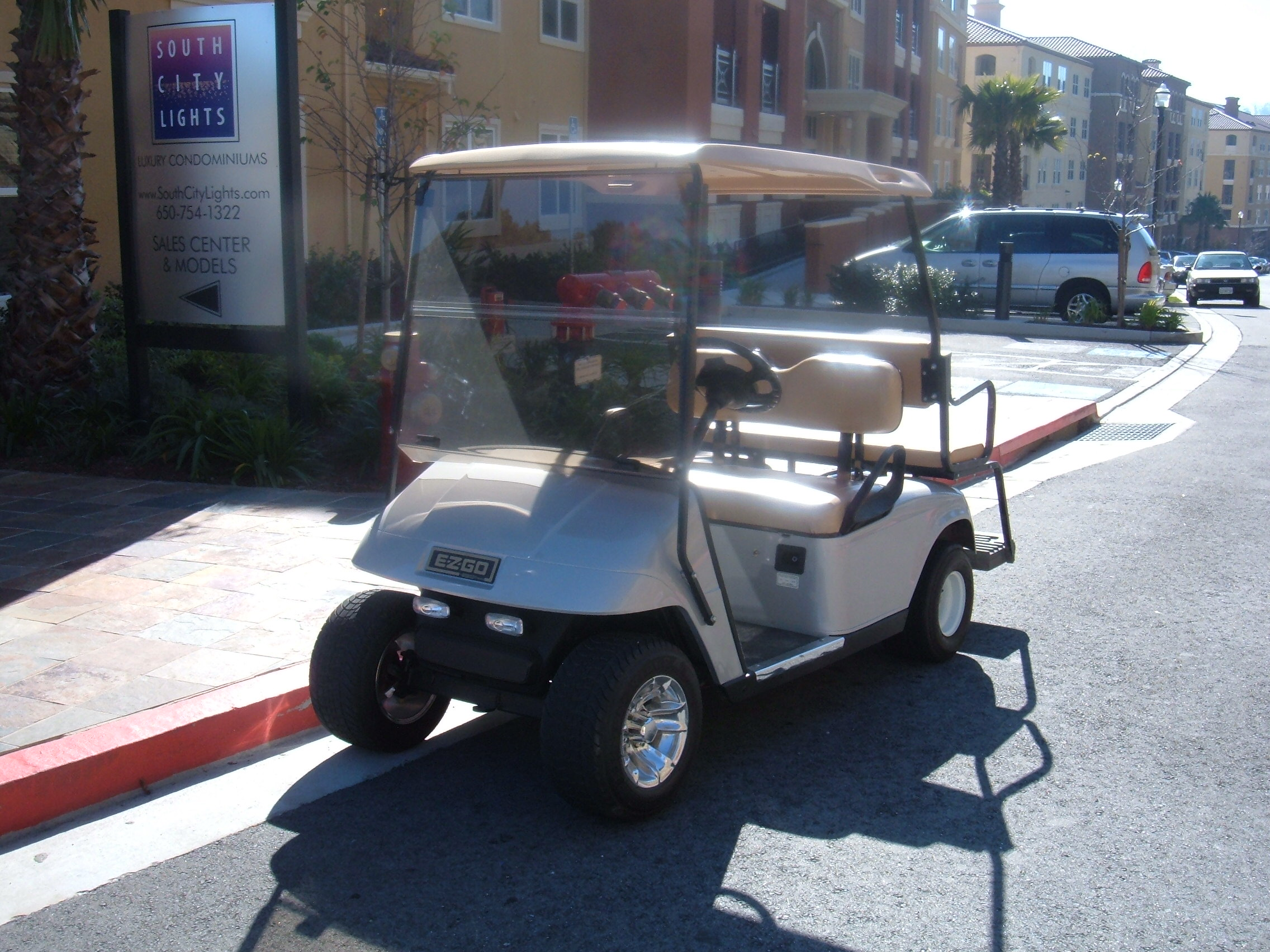 E-Z-GO golf cart in South San Francisco, California.